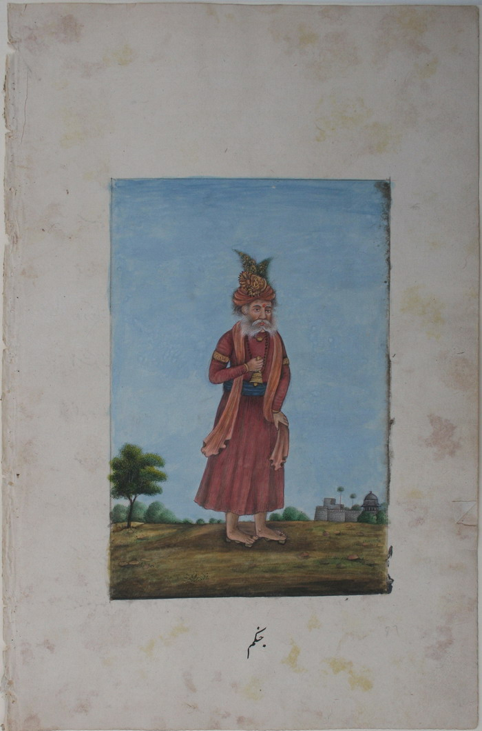 Lingayat vader (mendicant priest). Anglo-Indian school at Delhi, circa 1835. Opaque watercolour heightened with gold on wasli with 4 accompanying pages of descriptive text elegantly written by Muhammad Bakhsh. Folio 33.3 x 20cm; image 17.4 x 11.5cm. Mounted/matted. Lingayats are unorthodox monotheistic brahmins, worshipping only Shiva in the form of the lingam. Instead of the brahmin sacred thread they wear around their neck a cord with an Ishtalinga(lingam) attached. Their unorthodoxy is radical in rejecting the Vedas and paying no regard to the caste system, with their priests performing religious ceremonies for those that the orthodox brahmins would not and also allowing women to particpate in ceremonies which otherwise they could not. Lingayat vaders (also known as jangams) are mendicant priests who carry a bell with them to announce their presence.